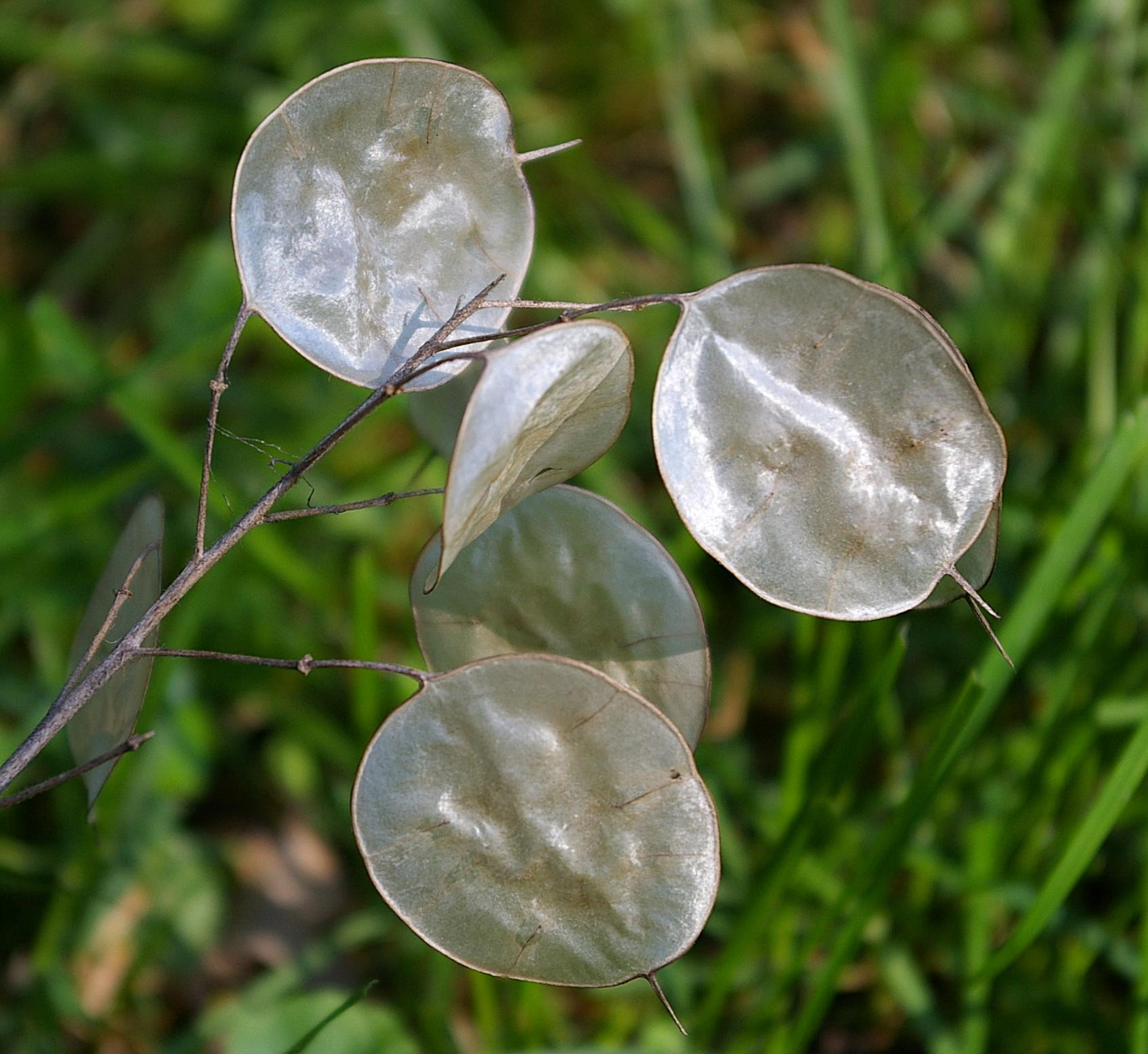 Annual Honesty (Lunaria annua); old pods without seed.